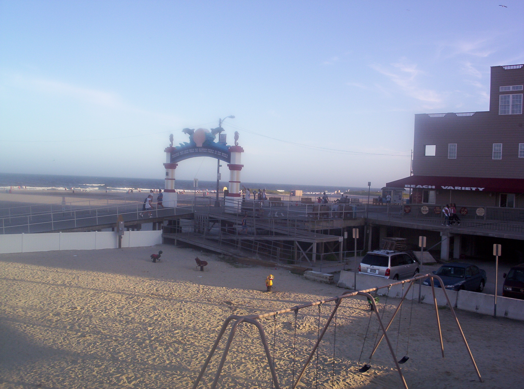 The Wildwood Boardwalk from Above